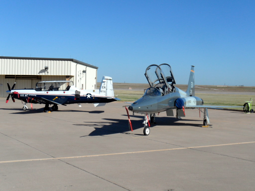 T-6A Texan II (left) T-38C Talon (right) of 80th Flying Training Wing, based at Sheppard Air Force Base, Wichita Falls, Texas